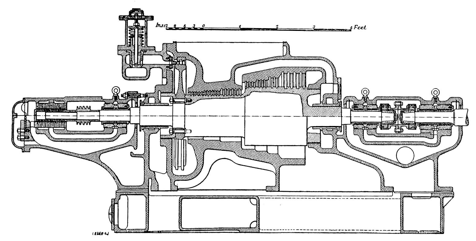 The Steam Turbine, the 1911 Rede Lecture: Figure 28: "Parson's Combined Impulse-Reaction Turbine".